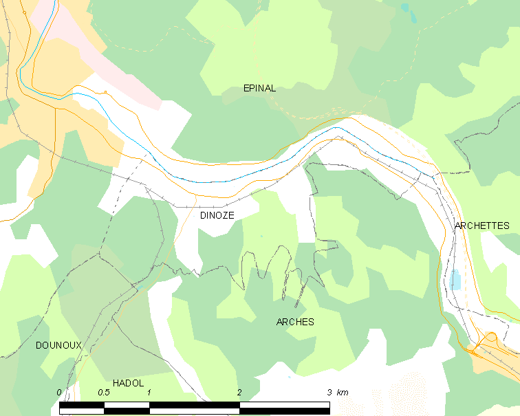 Map of French municipality Dinozé